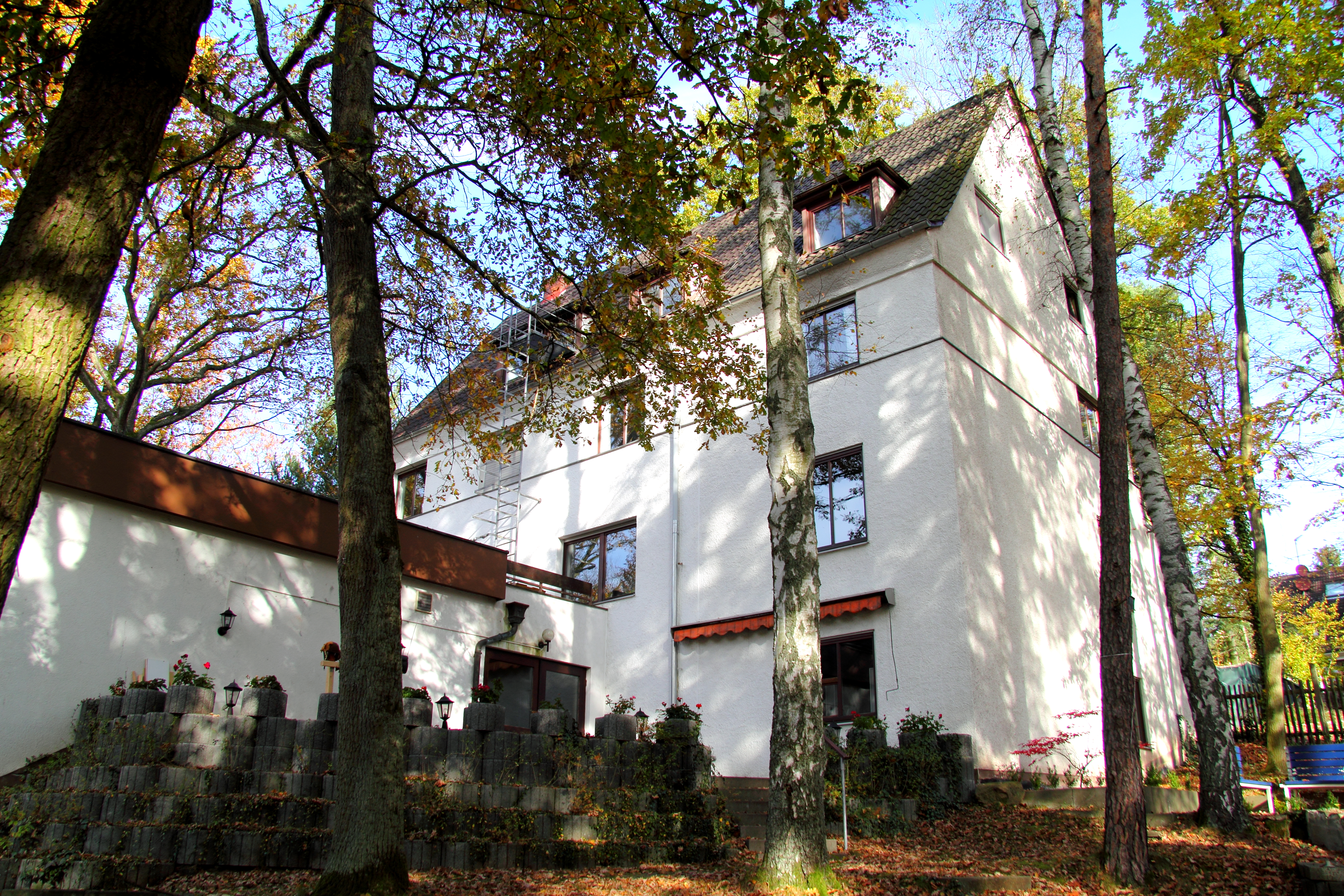 Erlangen, Germany: house of student fraternity "Corps Rhenania-Brunsviga", Atzelsberger Steige 8, 91054 Erlangen